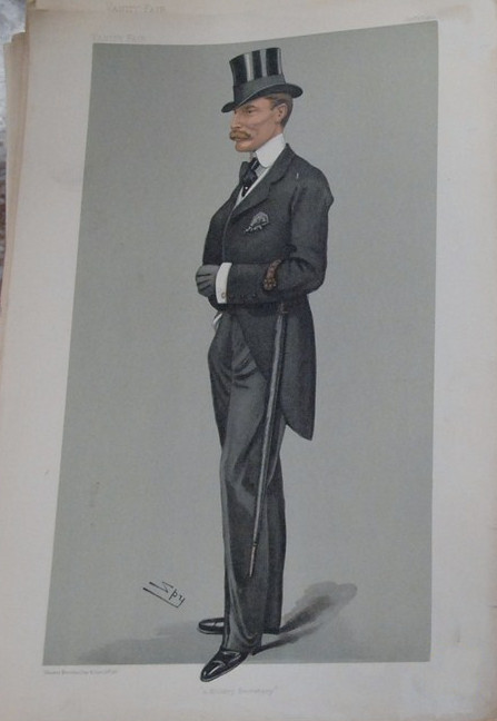 Men of the Day No.0863: Caricature of Col Douglas Frederick Rawdon Dawson CMG. Caption reads: "a Military Secretary"